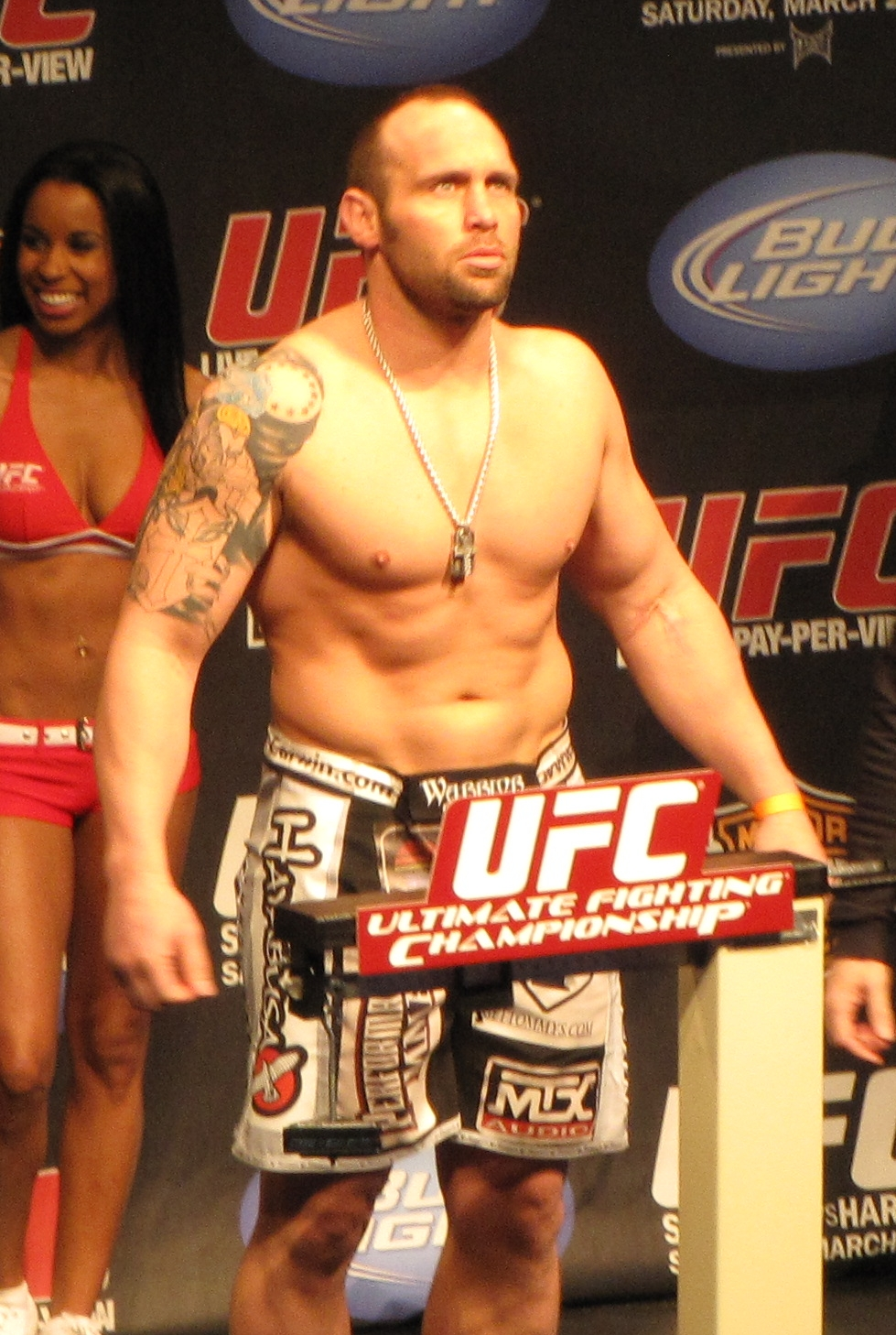 Description Shane Carwin at the UFC 111 weigh-ins.Date 26 March 2010Source I ,Adam Etheridge,(The Doppelganger (talk)) created this work entirely by myself.Author The Doppelganger (talk) (Adam Etheridge) 00:46, 27 March 2010 . . The Doppelganger . . 979×1,458 (922 KB) Shane Carwin at the UFC 111 weigh-ins.